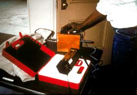 This electromagnetic detection instrument is designed to locate rebars in concrete for quality control inspections. The diameter of the bar and depth-of-cover is calculated and digitally displayed.